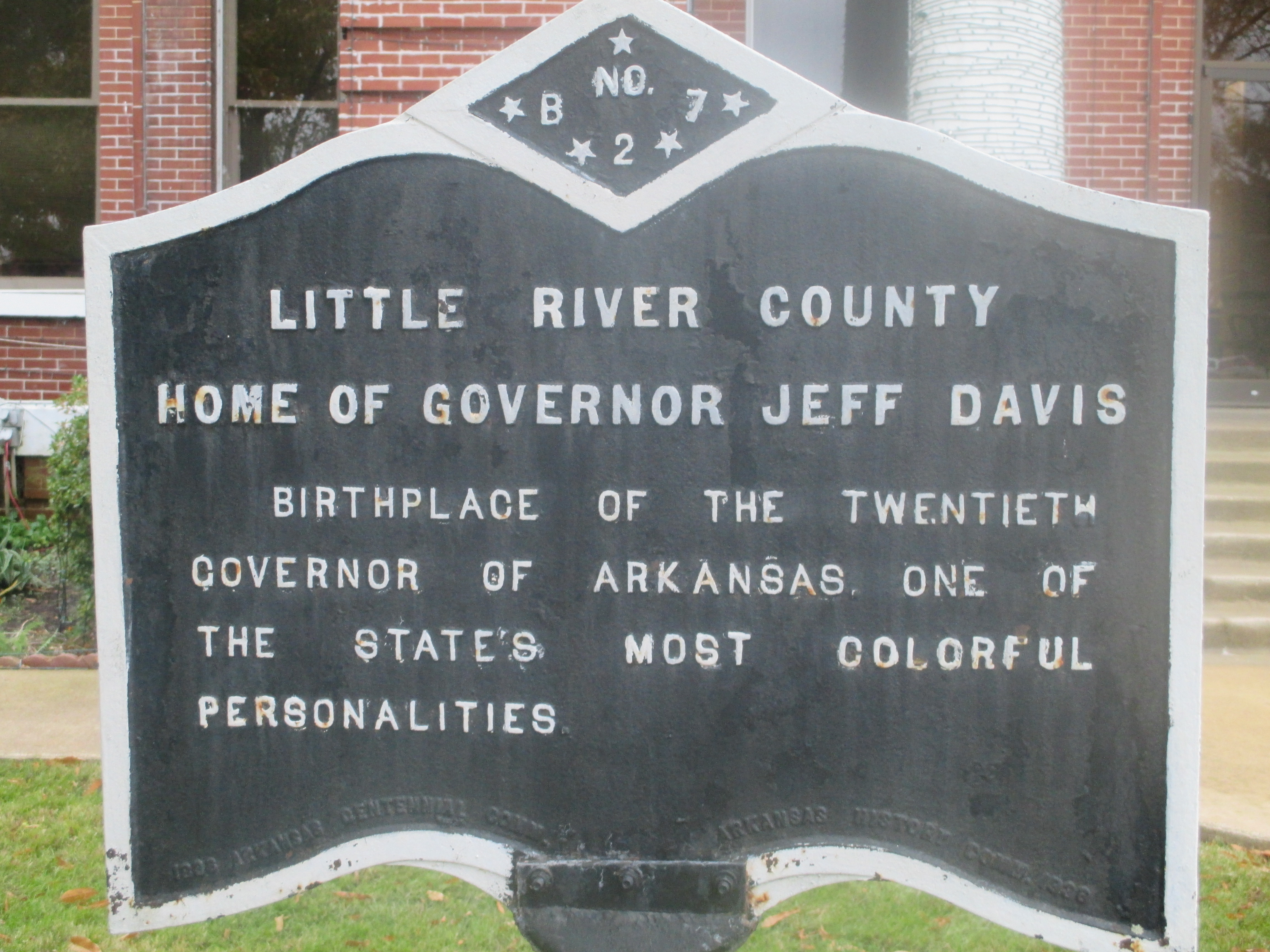 I took photo with Canon camera of historical marker in Ashdown, AR, commemorating the birth there of former Governor Jeff Davis of AR.